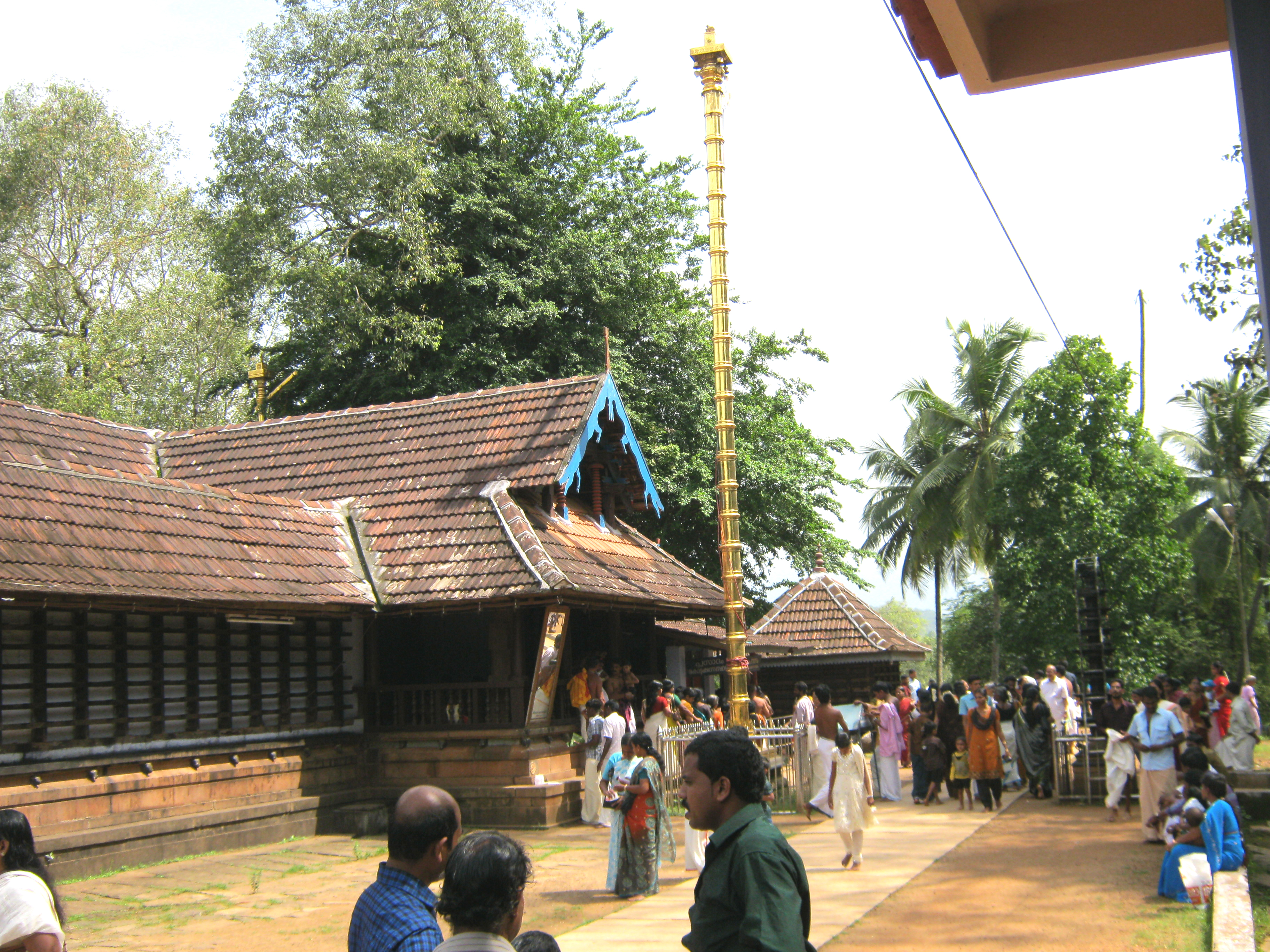 Tthirumandhamkunnu Temple, Malappuram District, Kerala